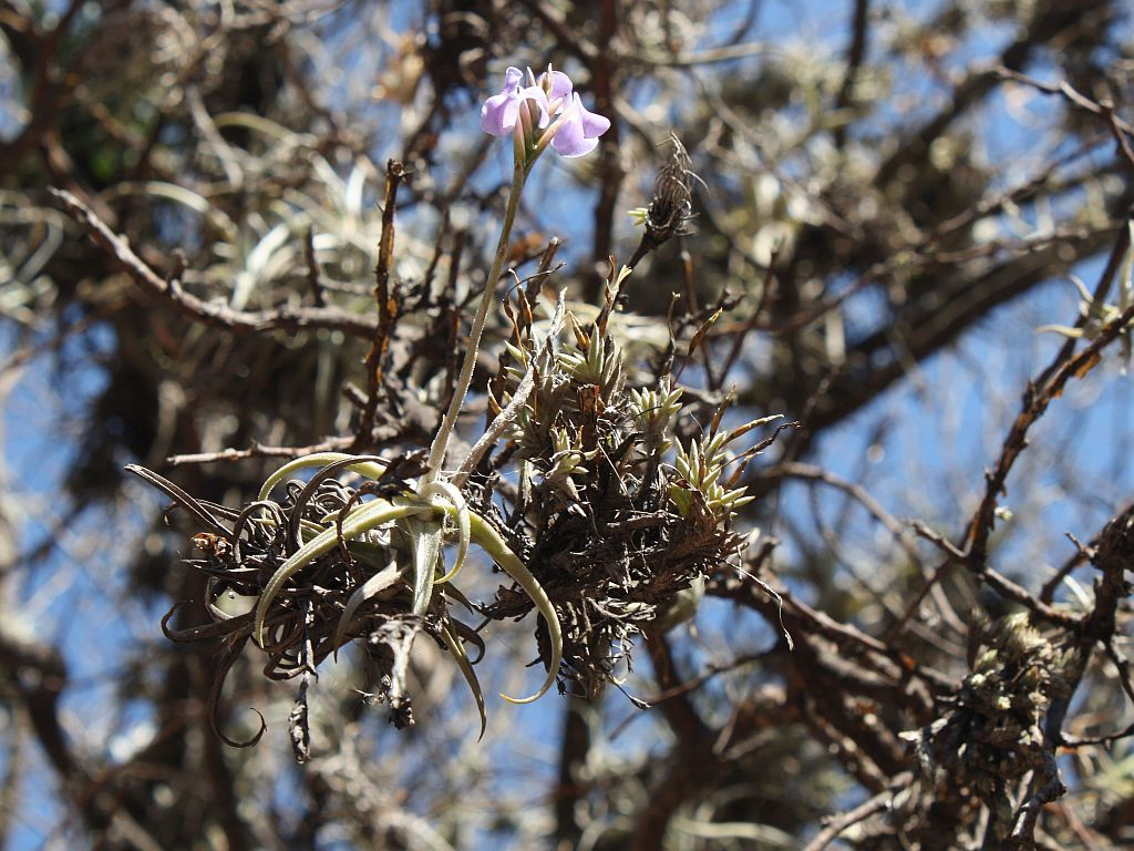 Tillandsia reichenbachii flowering; accompanied by Tillandsia capillaris (the smaller plants on the right) in habitat in Peru, exact location unknown.